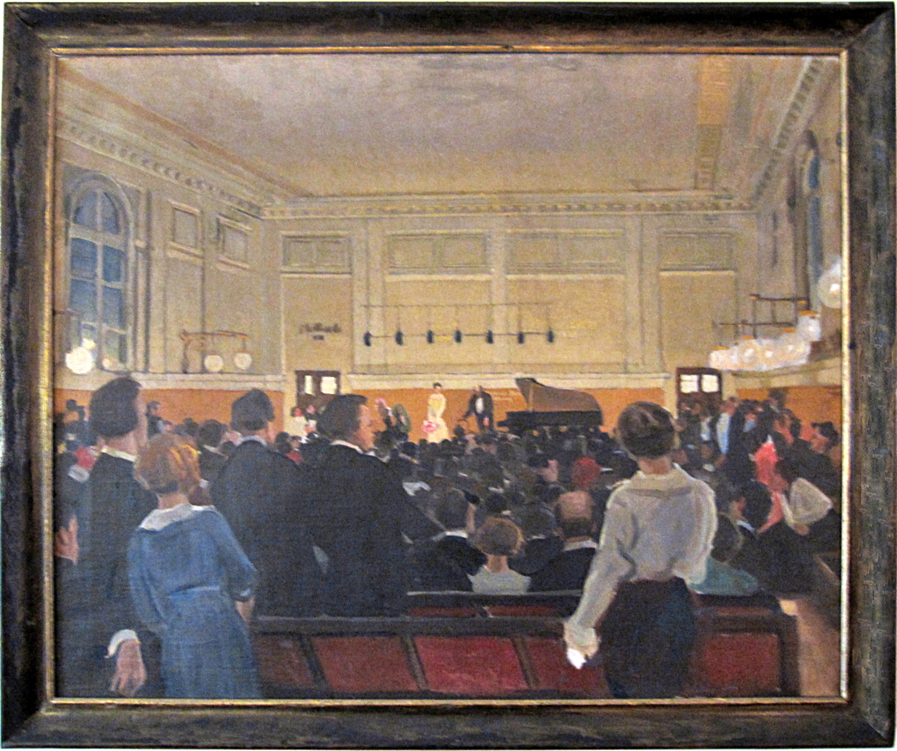 Performance at the Bösendorfer Saal, which was dismantled in 1913. Factory of piano manufacturer Bösendorfer in Vienna's IV district Wieden.